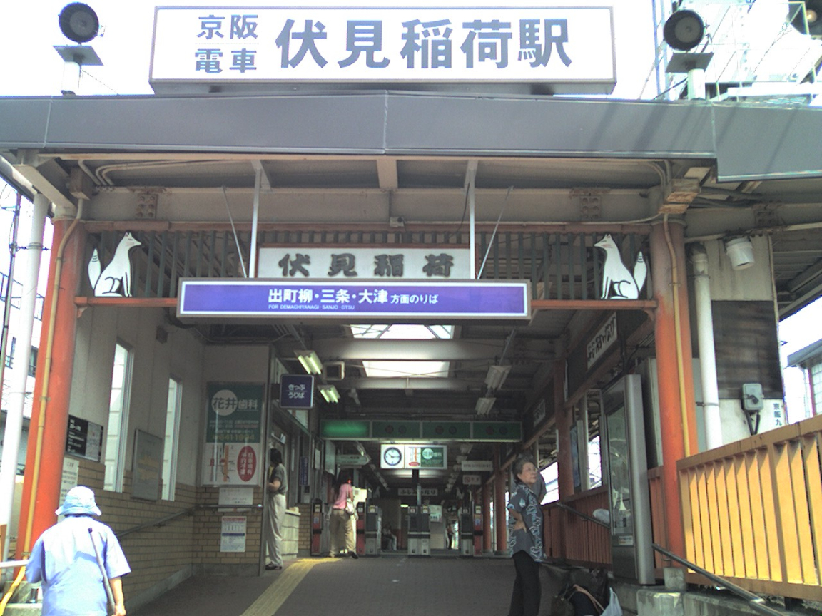 Keihan Main Line Fushimi-Inari Station